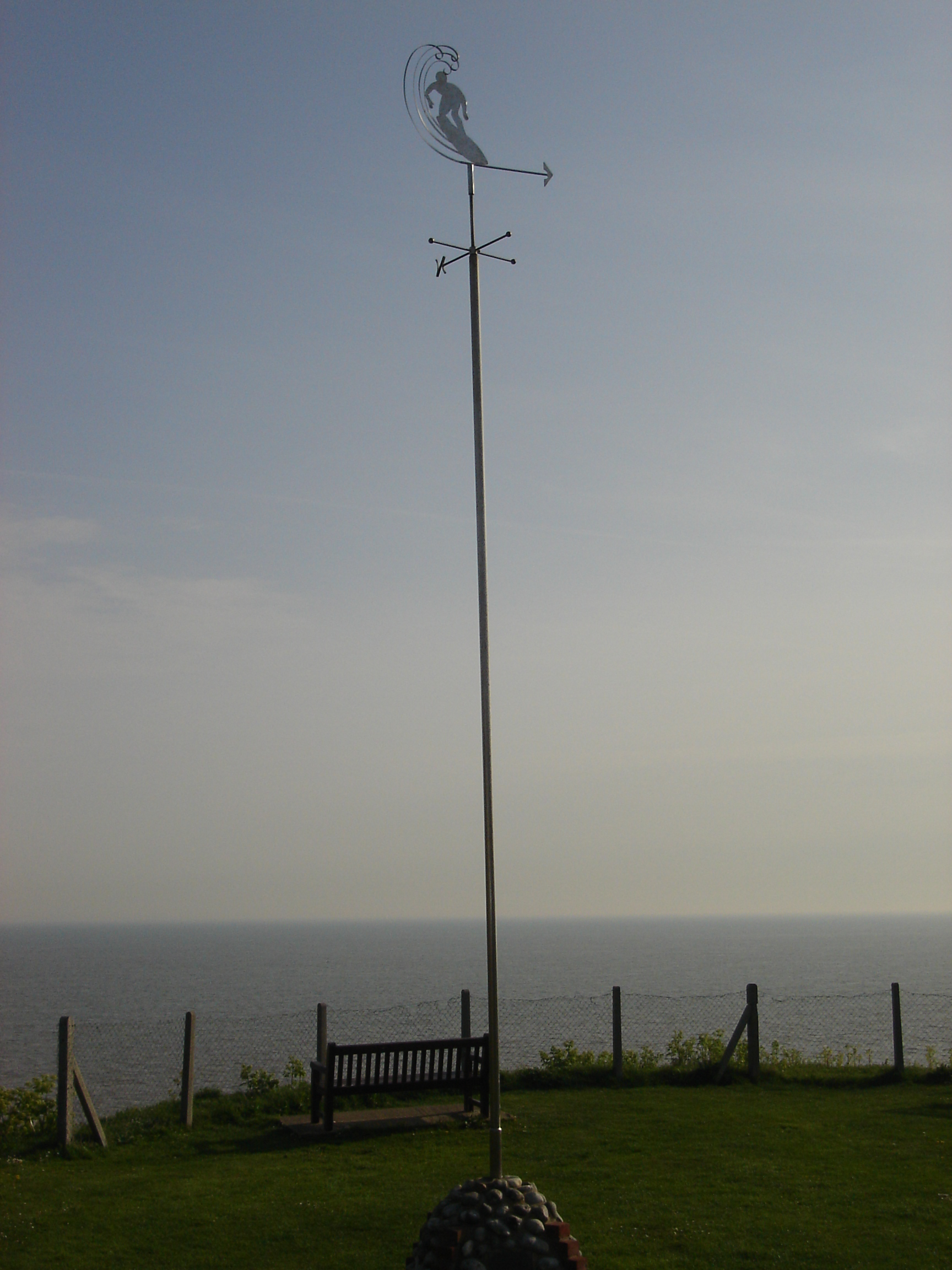 Picture of East Runton, Norfolk surfers memorial